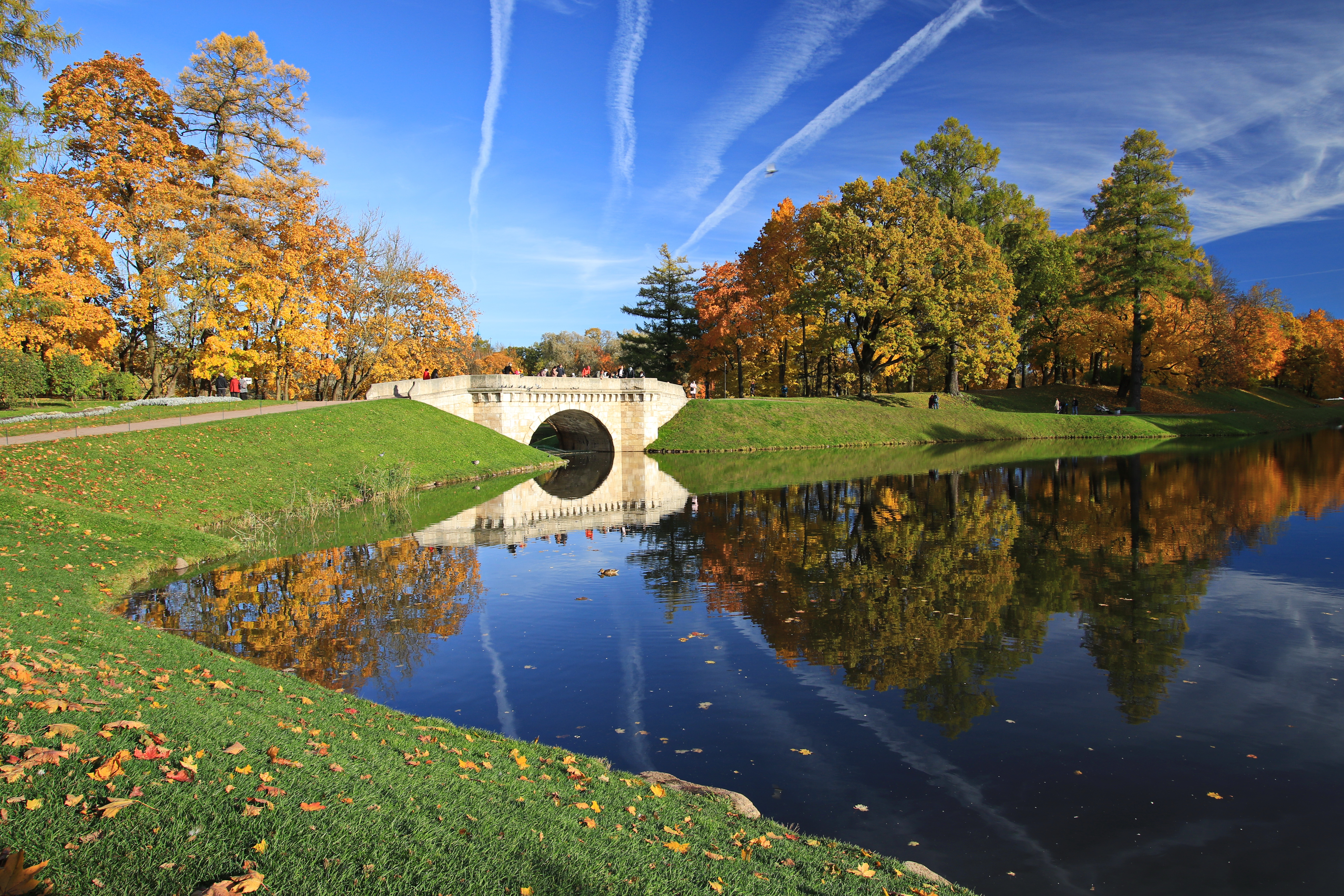 Karpin bridge in Palace Park at the Gatchina museum-preserve in Leningrad Oblast, Russia. This photo has been taken in the country: Russia